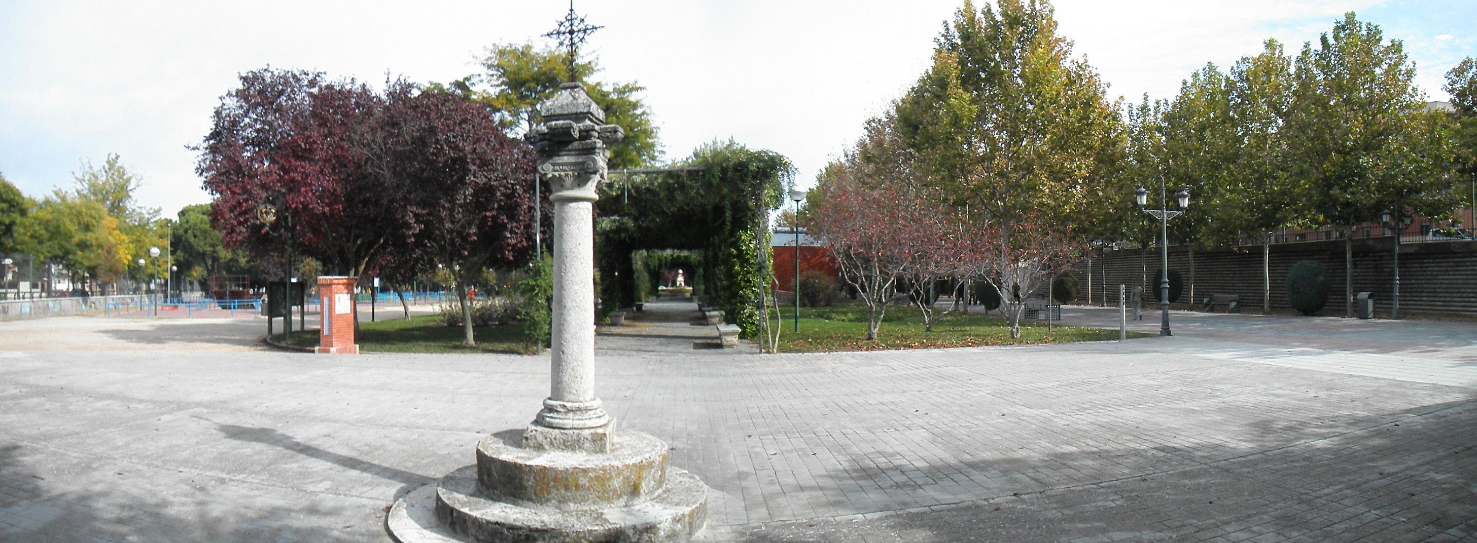 The marrieds cross, Parque Gasset (Ciudad Real), Spain